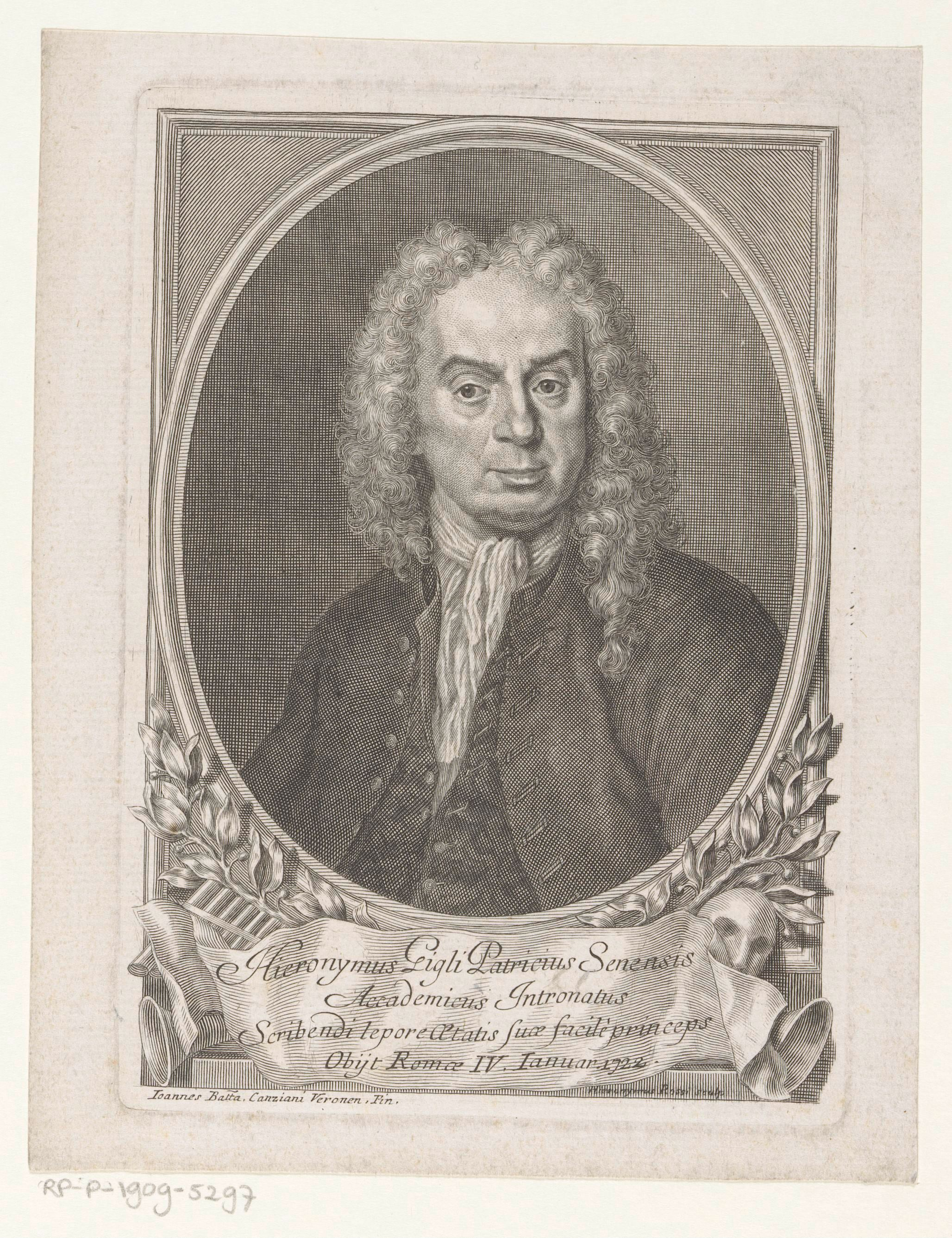 Portrait of Girolamo Gigli (1660-1722)